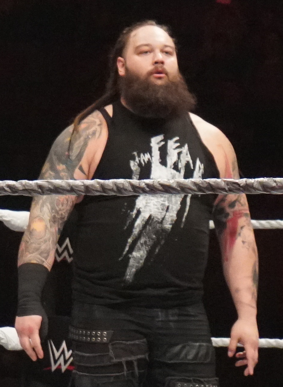 Roman Reigns & Seth Rollins defeat Bray Wyatt & Samoa Joe ( Le vendredi 12 mai, la WWE Live Tour fera escale au Country Hall a Liege pour le spectacle de catch de l'annee! Au programme: des duels impitoyables et des rencontres captivantes entre les meilleures equipes et les plus grands rivaux. )